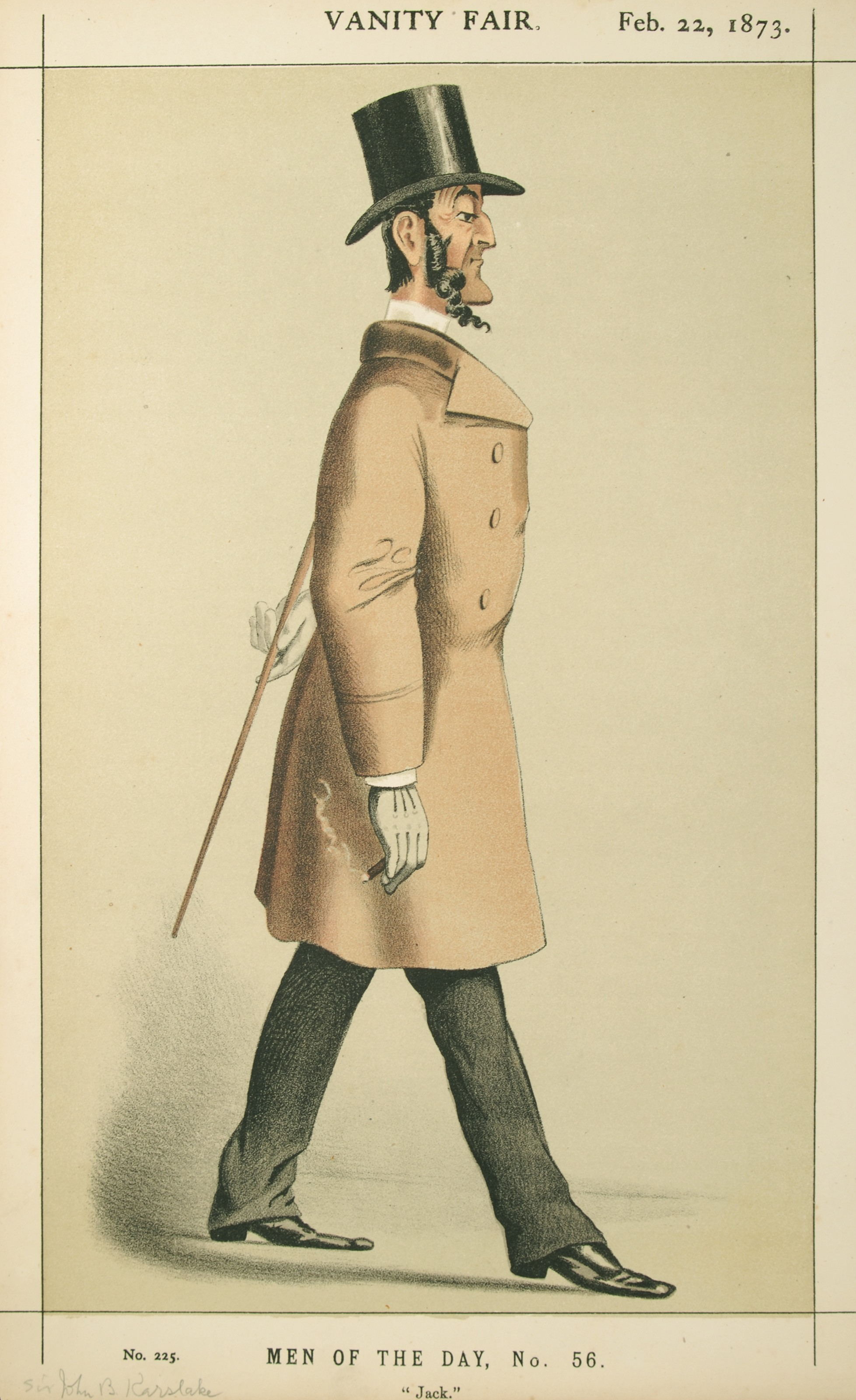 Men of the Day No.56: Caricature of Sir Jack Kerslake [sic] Kt. Caption reads: "Jack"